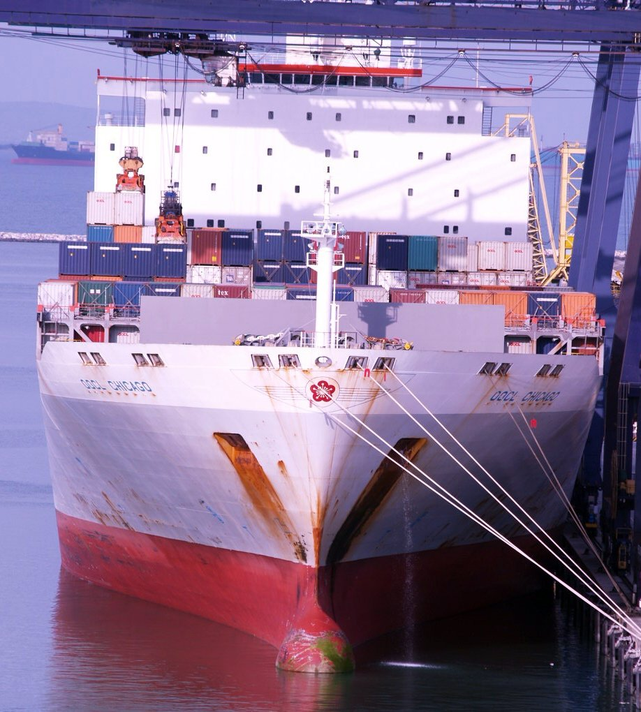 IMO number : 9199270 Name of ship : OOCL CHICAGO Call Sign : VRWQ2 Gross tonnage : 66677 Type of ship : Container Ship Year of build : 2000 Flag : Hong Kong, China Status of ship : In Service